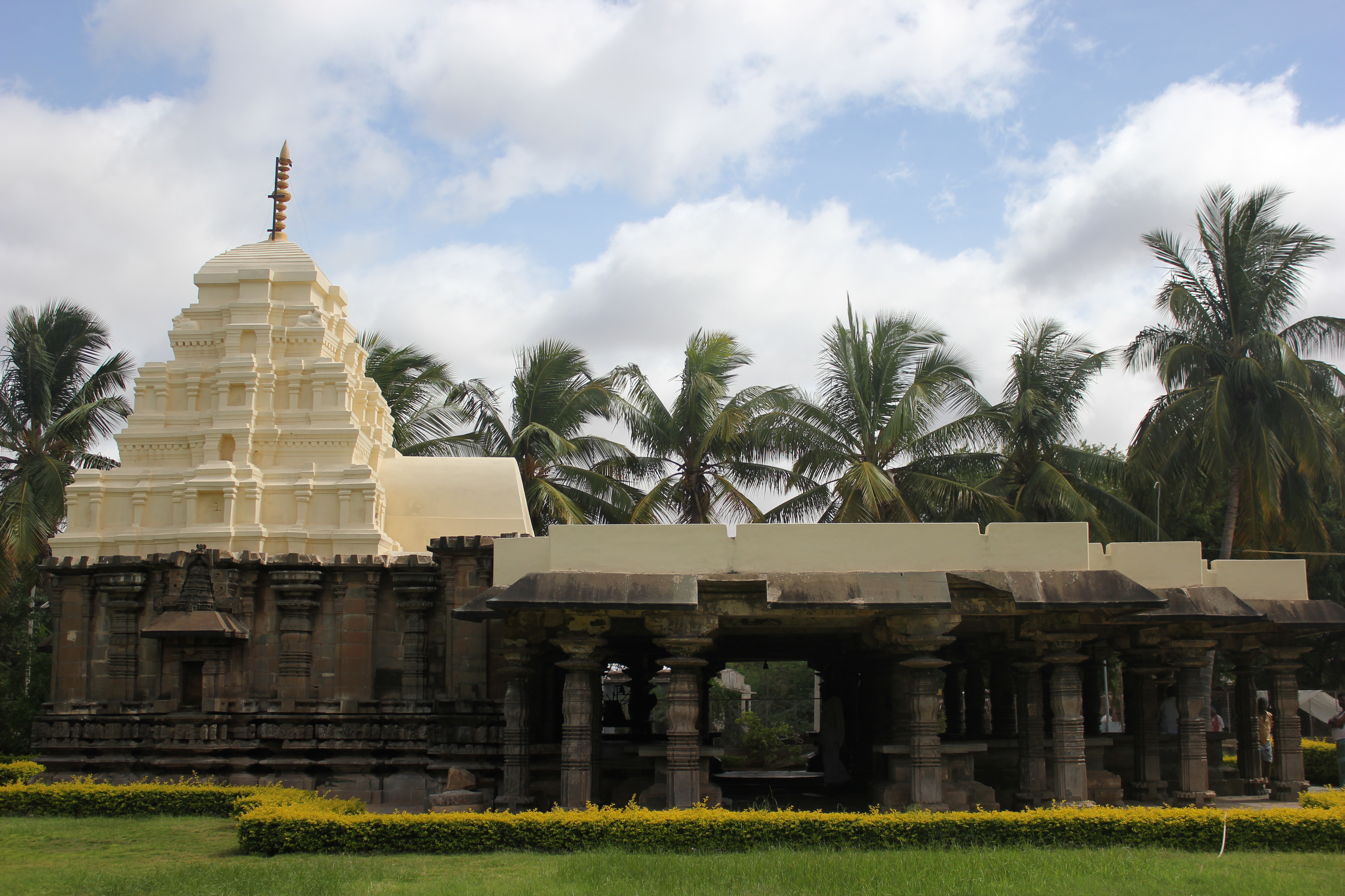 This photograph was taken by me at the Kalleshvara temple (also spelt Kalleshwara or Kallesvara) at Ambali in Bellary district, Karnataka state, India. The temple was built by the Western (Kalyani) Chalukya King Vikramaditya VI in 1083 A.D.